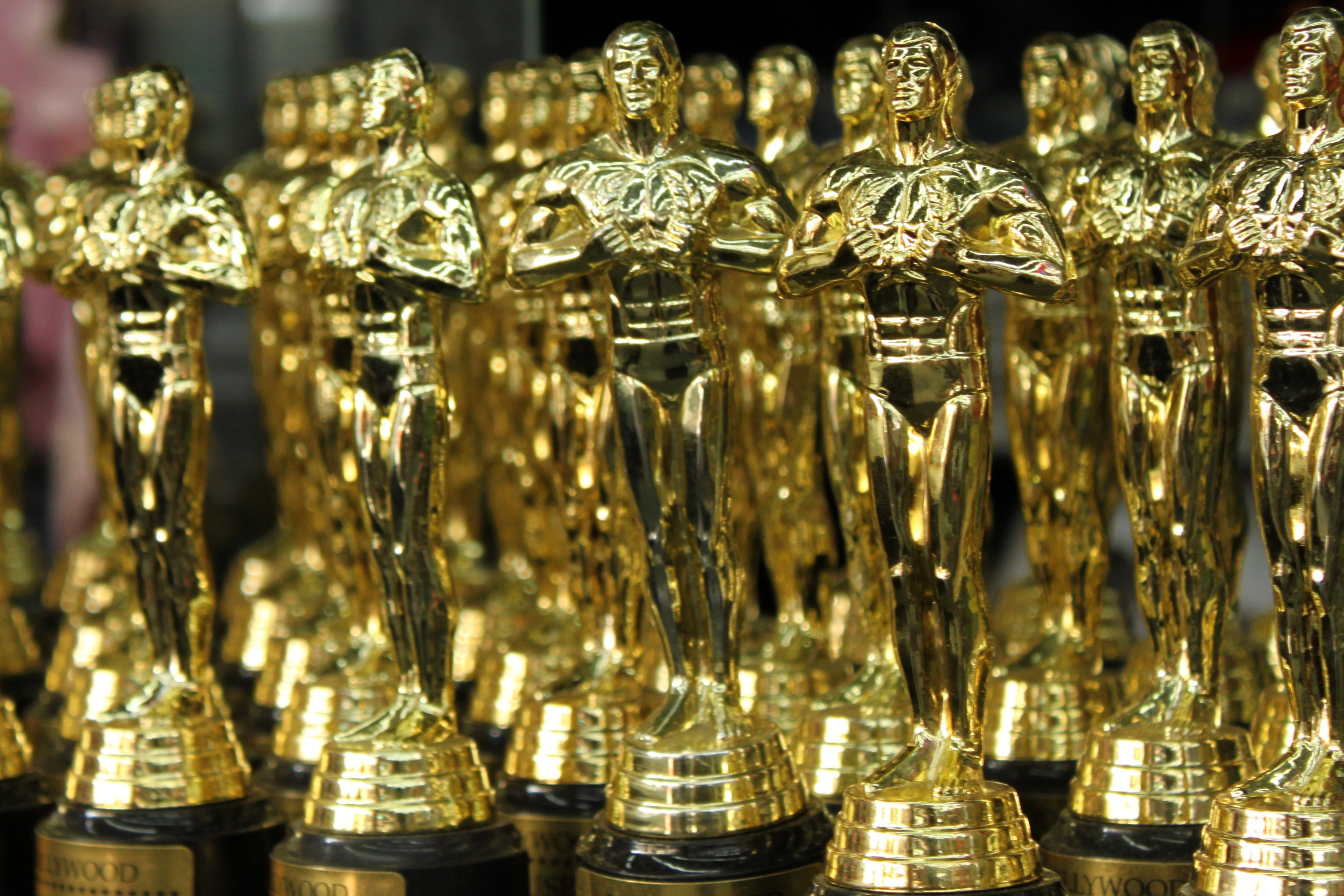 Several dozen decorative trophies.